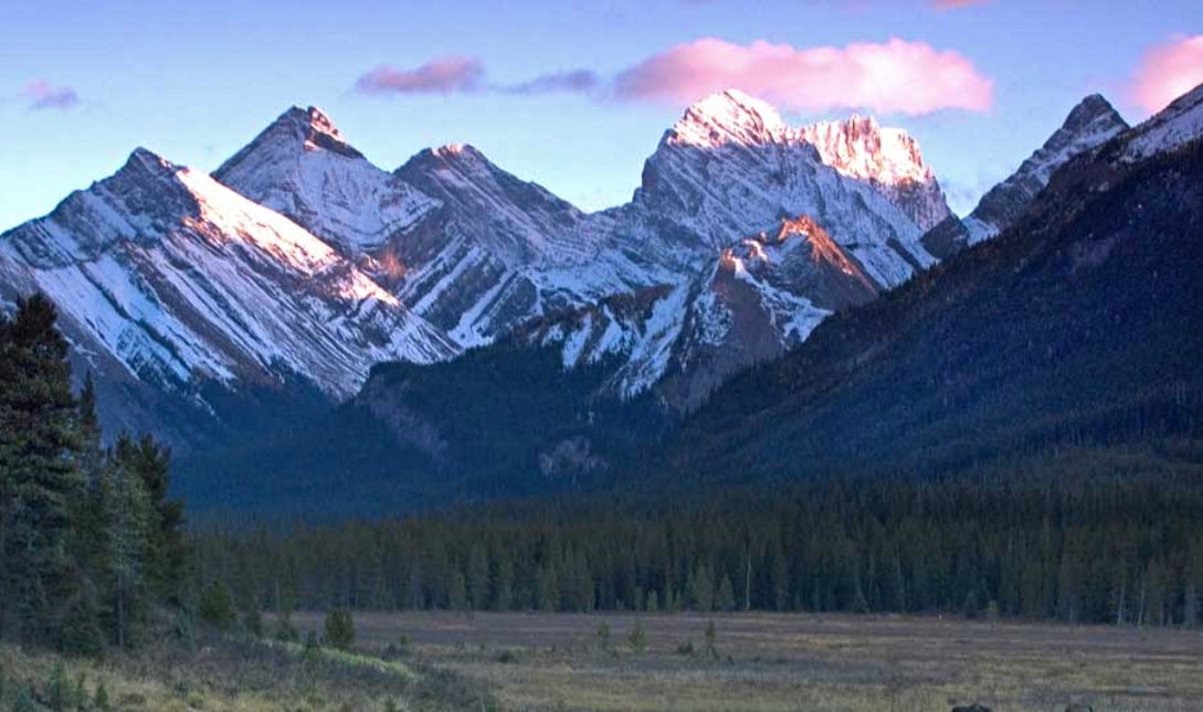 Mount Murray (left) and Mount French (right) seen from Spray Valley, Kananaskis Country, Alberta, Canada